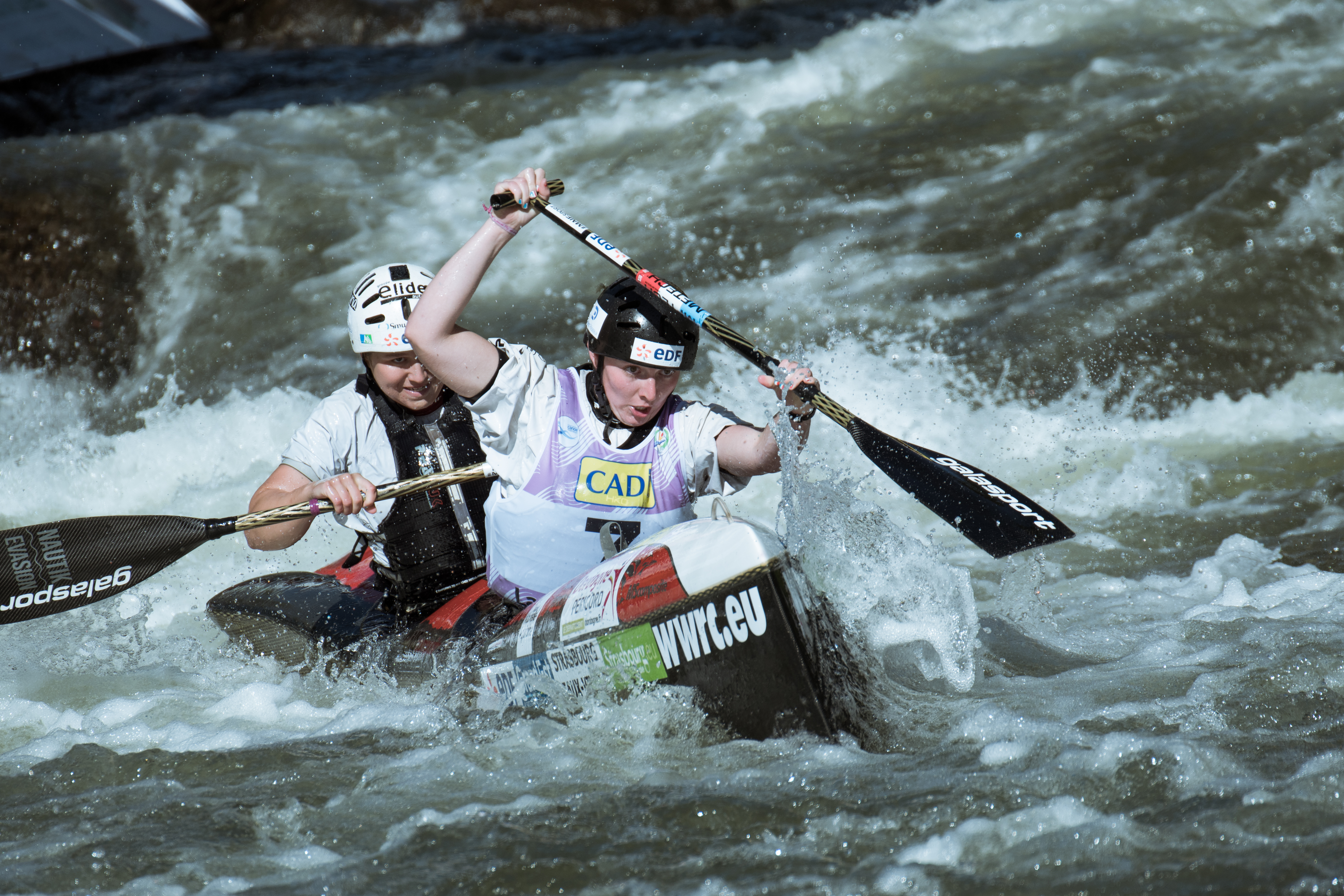 Elsa Gaubert and Margot Béziat during the 2019 Canoe Wildwater World Championships in La Seu d'Urgell, Spain.